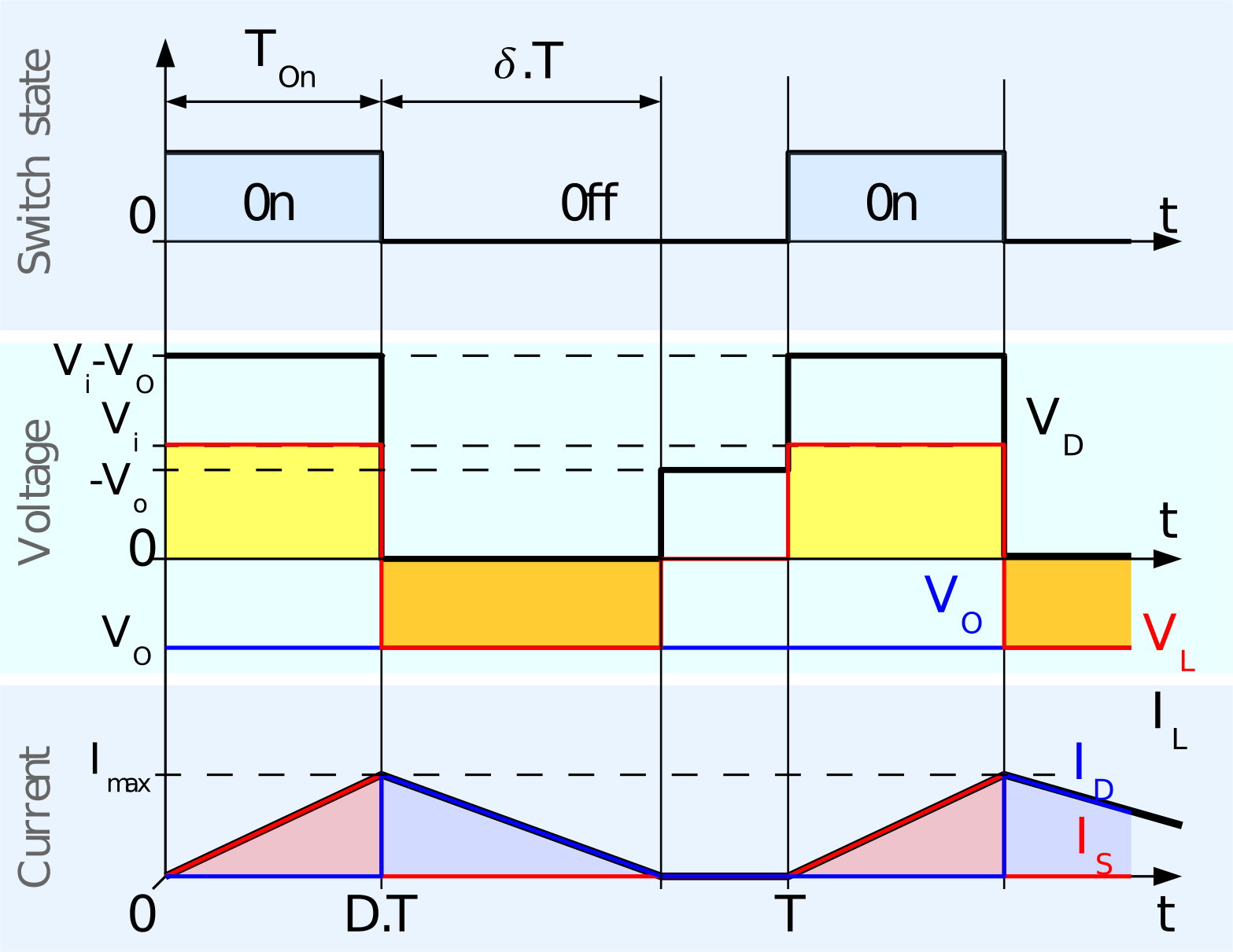 Cyril BUTTAY Waveforms of current and voltage in a buck-boost converter operating in discontinuous mode. Please note that a svg version of this file is also available on commons, but the "delta" is not properly displayed. Until this problem is corrected, please use the png version.